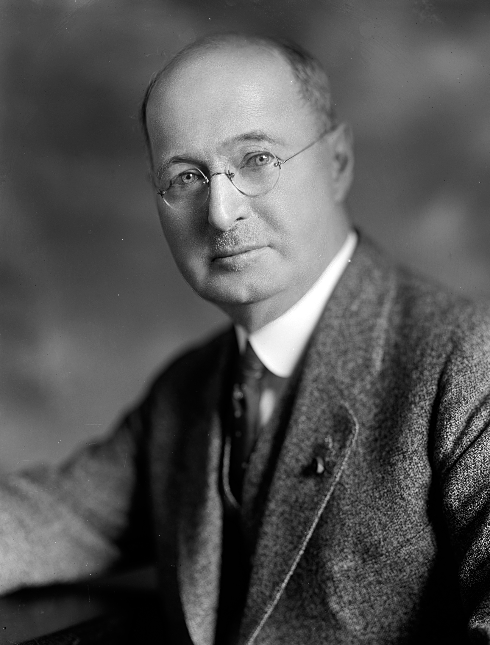 John Clayton Allen, US Representative from Illinois